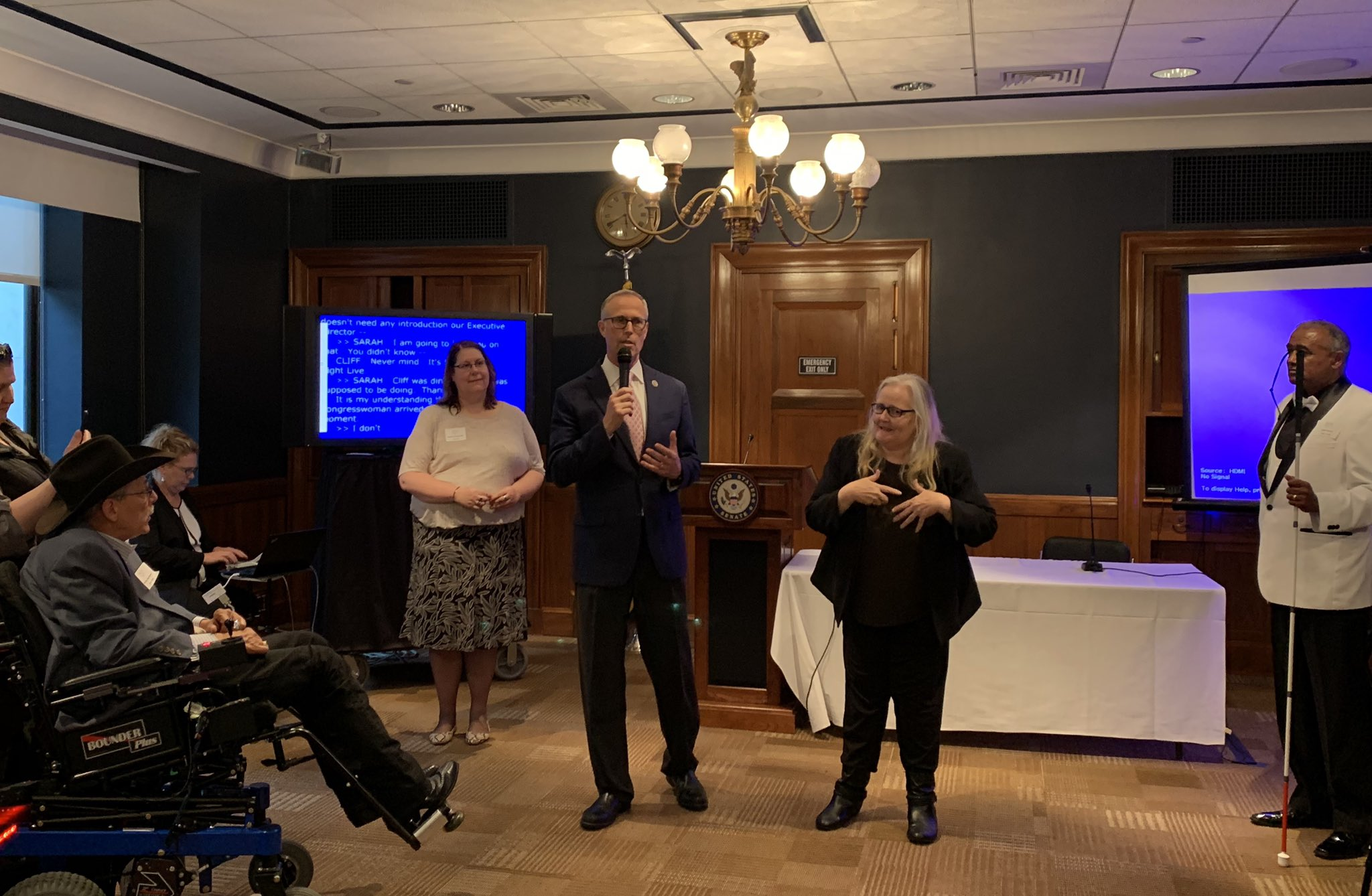 Thank you @NCILAdvocacy for inviting me to be a part of your event and speak about how Congress can positively impact the lives of individuals with disabilities for generations to come. #IDEAAct